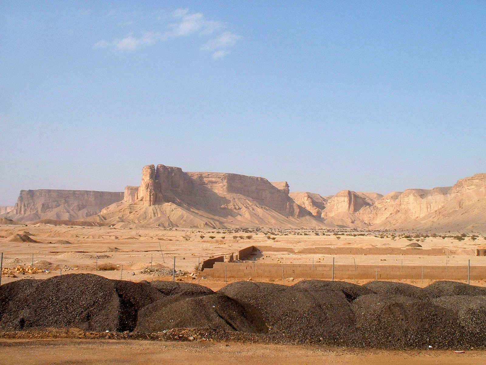 Tuwaiq Escarpment, South-West of Riyadh. Location (24.521847,46.372683)+646m